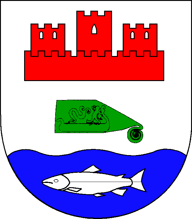 Coat of arms of the municipality Borgdorf-Seedorf in Schleswig-Holstein, Germany.